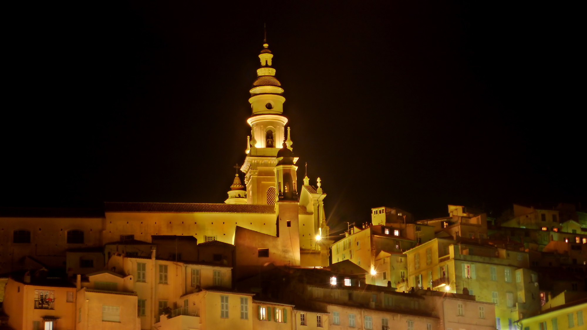 Menton at night